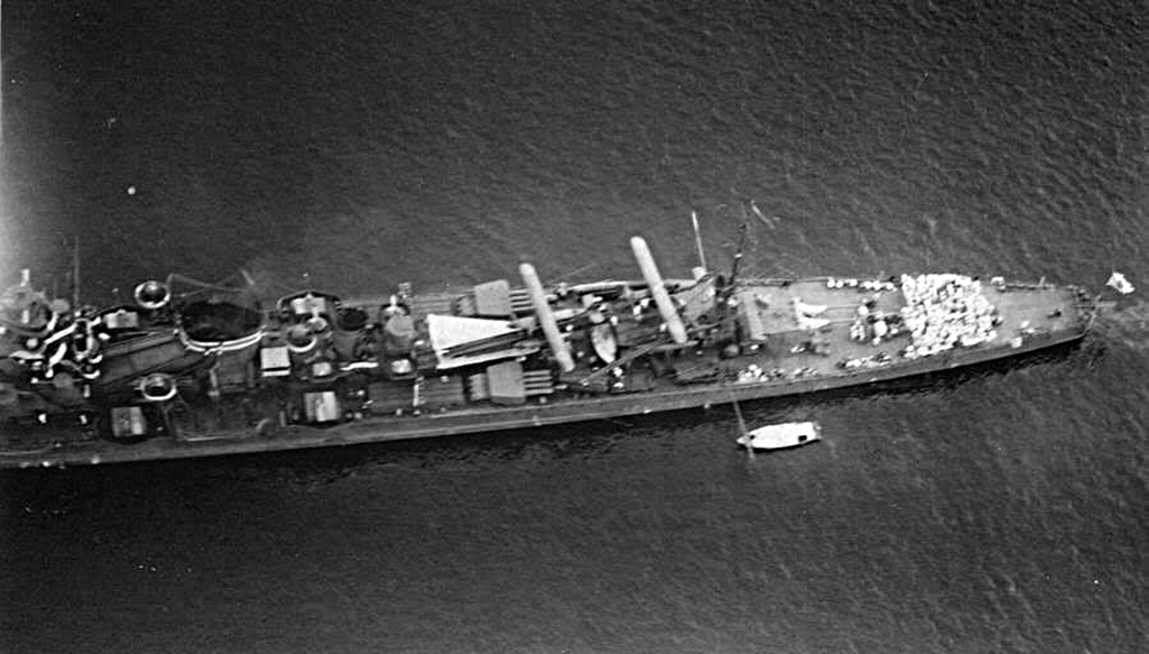 Aerial picture of middle and stern section of heavy cruiser Kako. Patton (page 12) claims that this picture was made in 1940 but there are two Kawanishi E7K2 embarked (according to Lacroix's Japanese Cruisers of the Pacific War Kako had only one E7K2 accompanied by one E8N1 between February 1939 and November 1941). Mark Stille (in Squadron Signal's Japanese Heavy Cruisers of World War II in action page 15) claims it was 1941 and according to Lacroix Kako had two white bands on forward funnel in the period between September 1941 and November 15, 1941. Therefore it seems that the picture was probably taken in early November 1941.